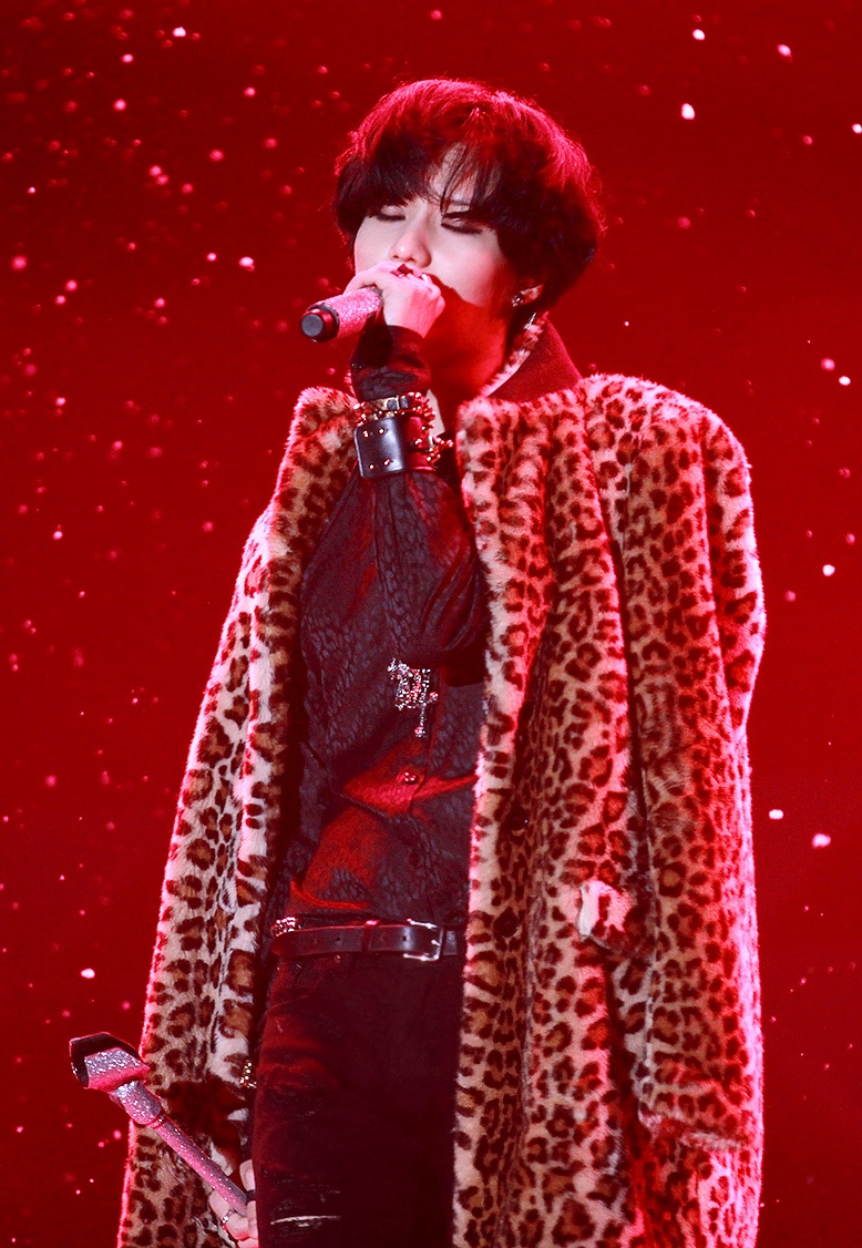 Taemin at the SMTown Week on December 21, 2013.